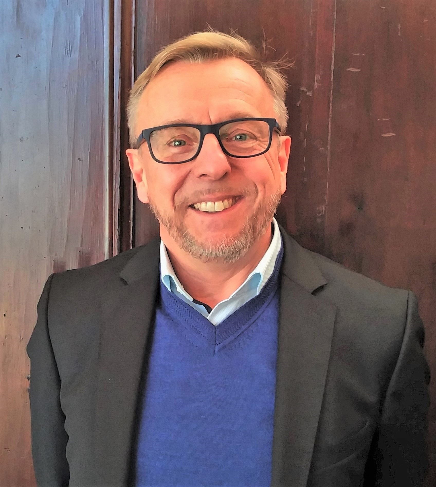 Thomas Renner (organist, composer, choir conductor, pianist)